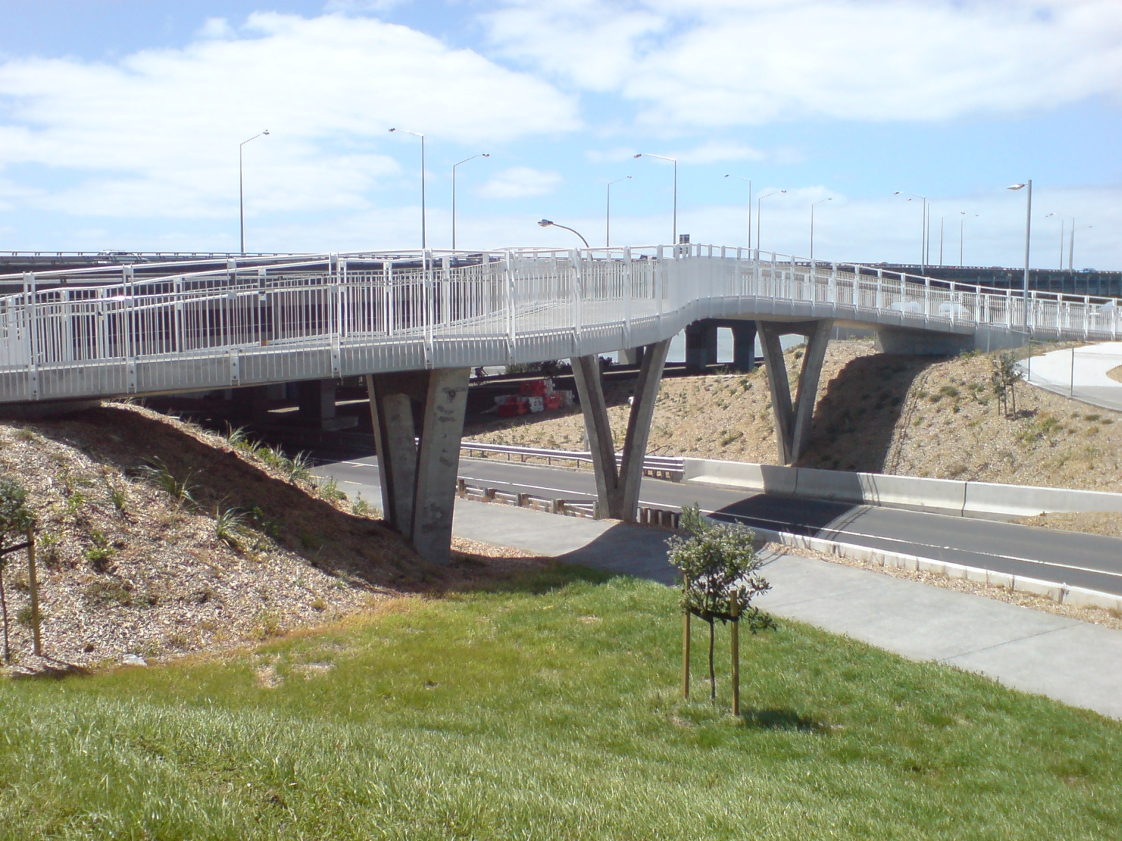 The walking / cycling bridge over Onehunga Harbour Road in Onehunga, Auckland, New Zealand. Almost finished in this image.